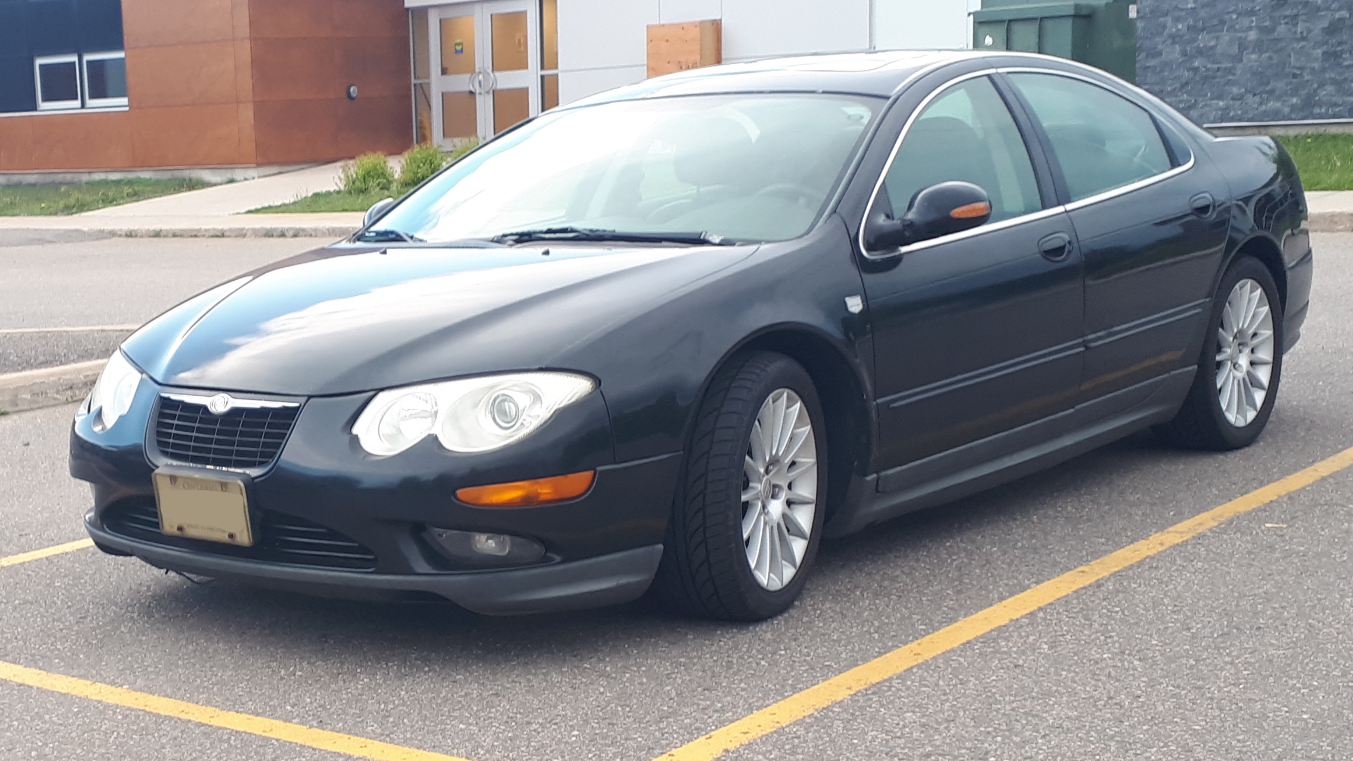 2002-2004 Chrysler 300M Special photographed in Sault Ste. Marie, Ontario, Canada